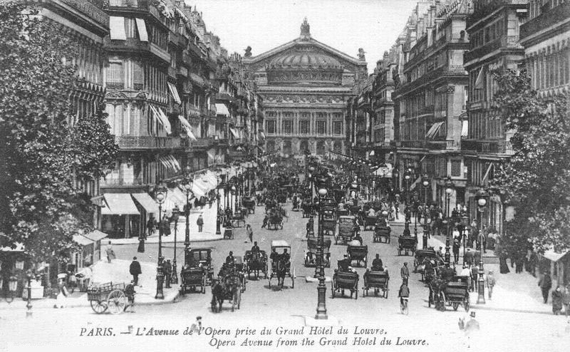 Postcard view of the Palais Garnier (Paris Opera) from the Avenue de l'Opéra around 1900